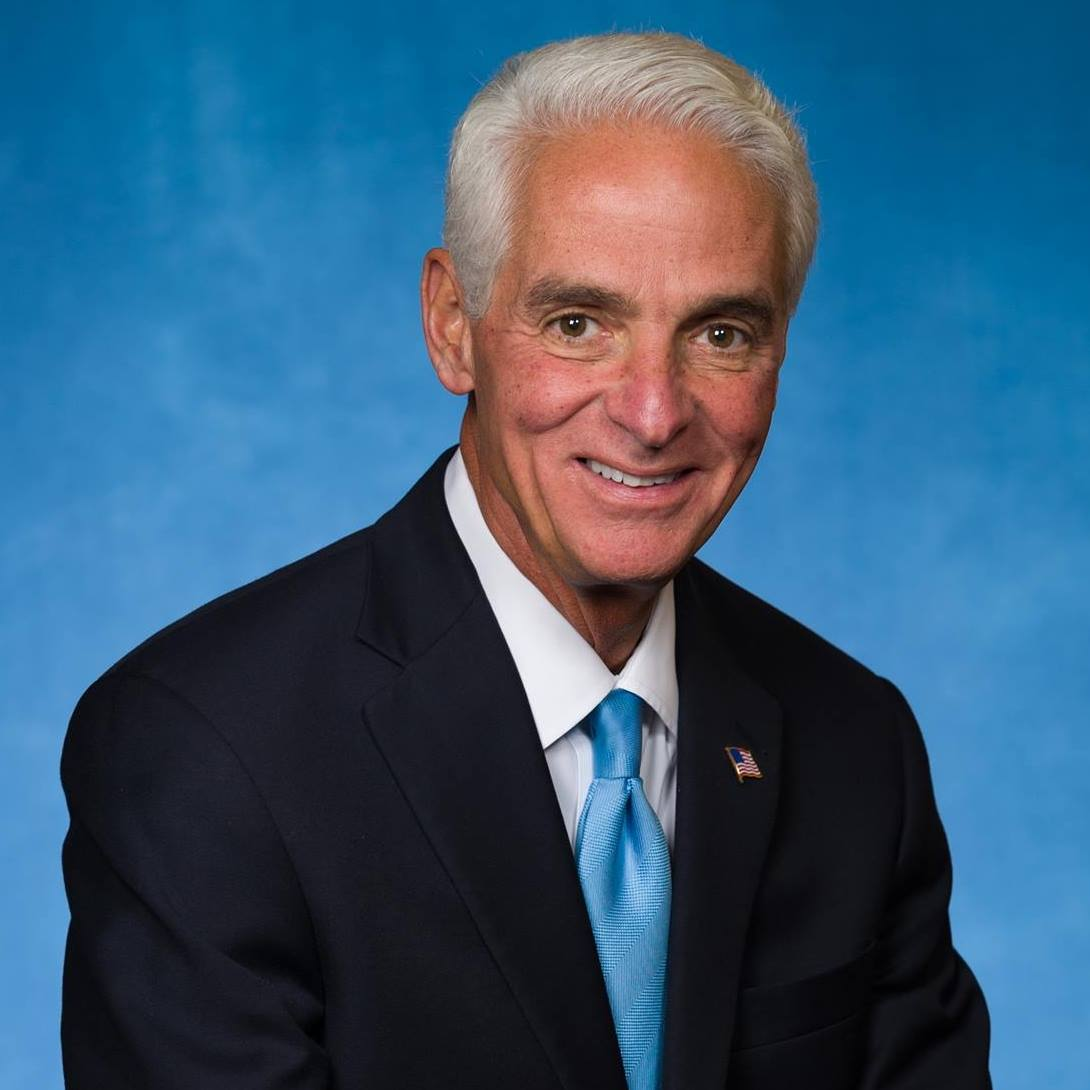 Official portrait of U.S. Congressman Charlie Crist